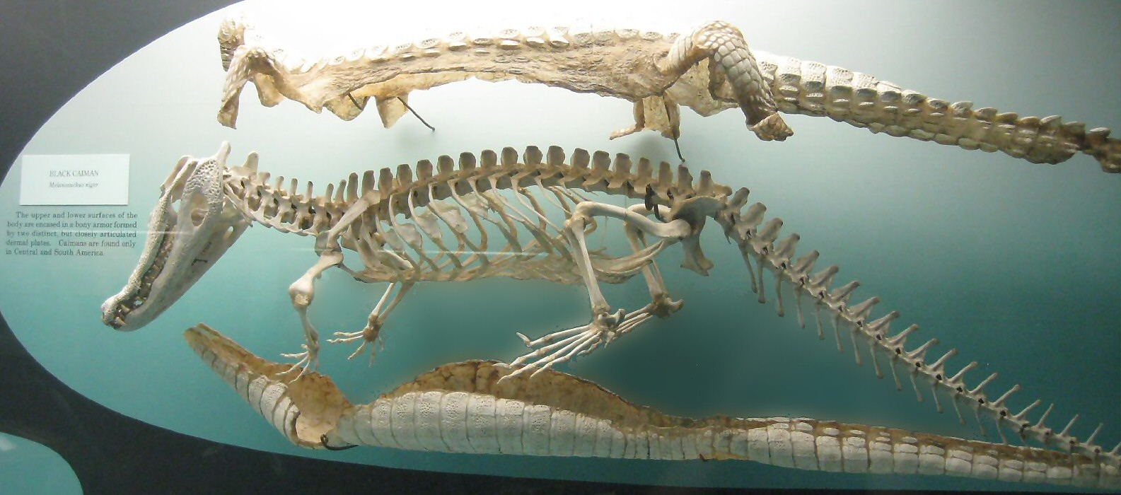 Melanosuchus niger, skeleton and shed skin. Smithsonian National Museum of Natural History, Washington DC.